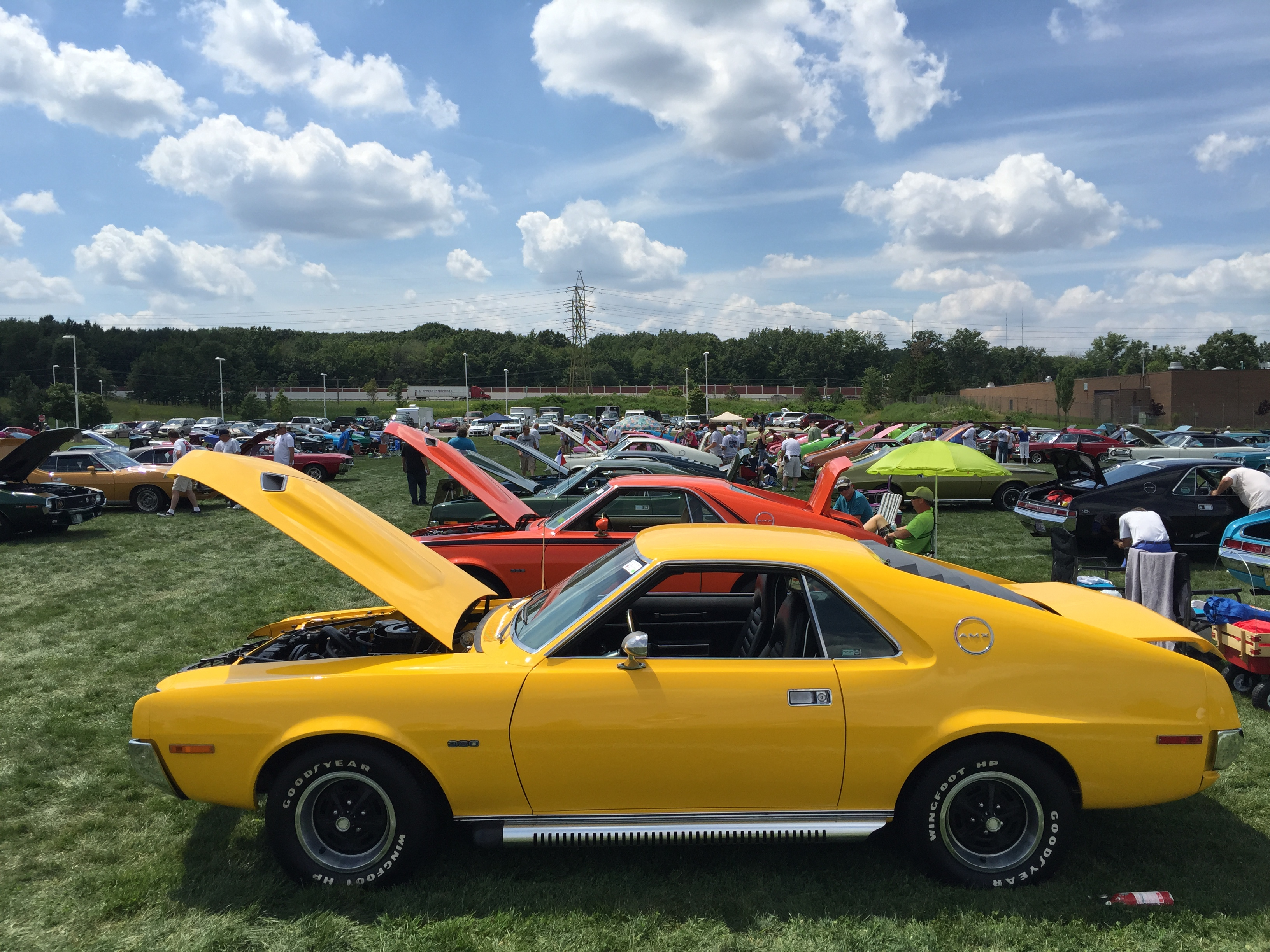 “Awesome Muscle Cars” AMC - part of a field of AMX dreams as far as the eye can see. The car in the foreground is a 1970 finished in yellow and equipped with the "360 Go Package" as well as "Group 19" Sidewinder exhaust system. It also has louvers on the rear window. All the cars on the field were built by American Motors Corporation (AMC) in the United States. Picture taken during the car show that was part of the American Motors Owners Association (AMO) annual convention held July 2015 near Cleveland, Ohio.